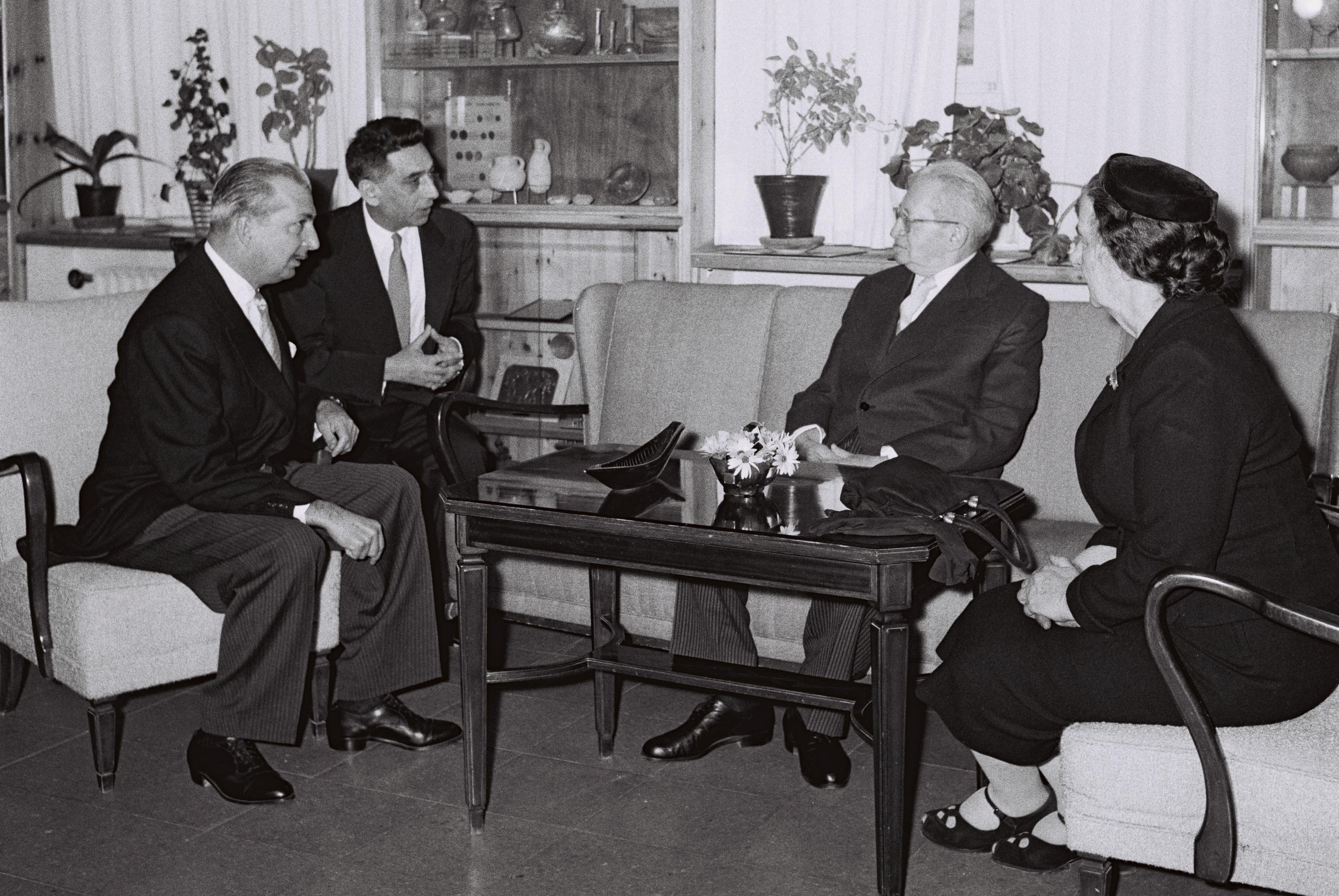 VENEZUELAN AMB. TO ISRAEL VICENTE GERBASI WITH PRESIDENT YITZHAK BEN-ZVI AND FOREIGN MIN. GOLDA MEIT, AT BEIT HANASSI IN JERUSALEM, AFTER ACCREDITATION CEREMONY